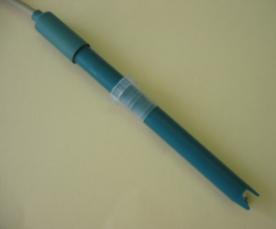 I am the originator of this image I am the originator of this image